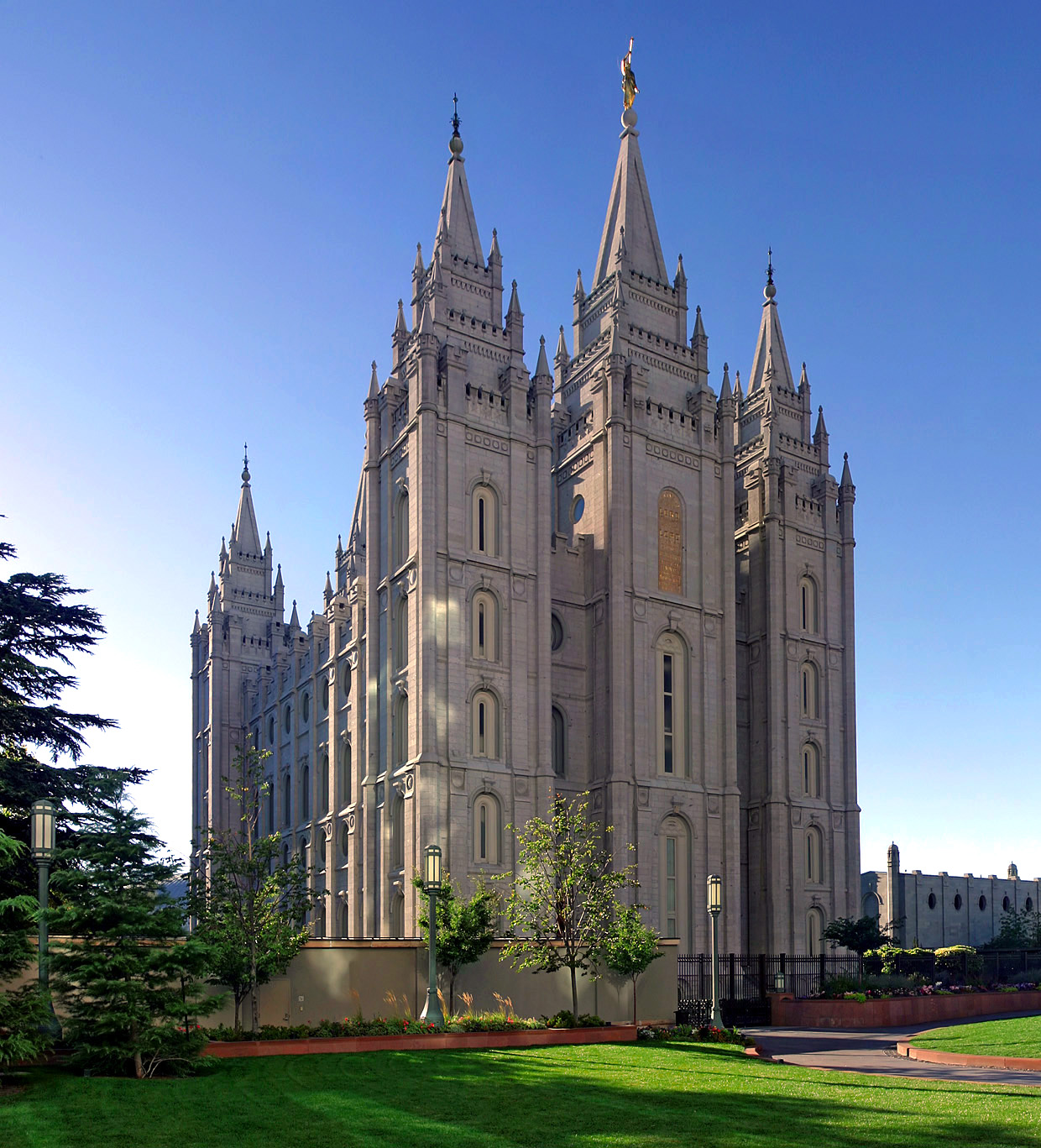 KIRCHE, Utah, USA. Taken by myself with a Canon 10D and 17-40mm f/4 L lens. This is a 3 segment panorama.